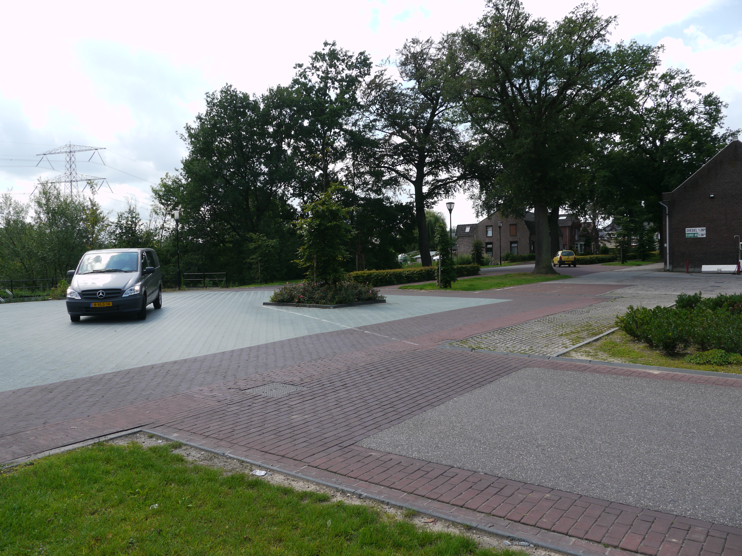 Illustration of road furnishing according to 'shared space', a traffic concept by the Dutch traffic scientist Hans Monderman.